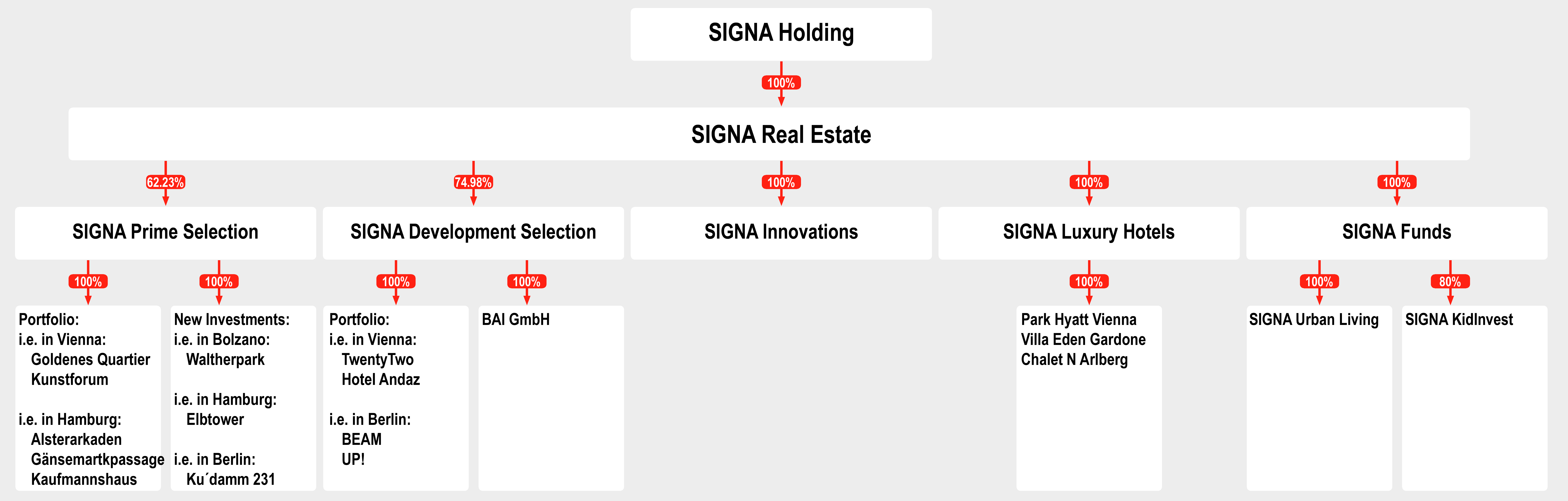 Corporate structure of Signa Retail Sources: and